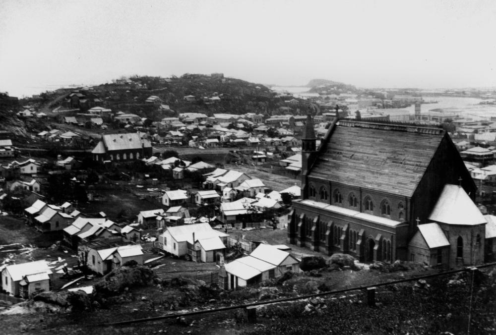 Sacred Heart Cathedral in Townsville, 1903. The photograph shows Melton Hill, with Sacred Heart Cathedral in the foreground, after cyclone Leonta on 9 March, 1903. On the left is the Presbyterian Church, undamaged, while the Wesleyan Church behind it was completely destroyed.